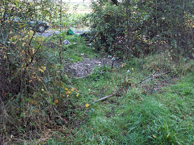 Old railway line. Part of the disused Burry Port and Gwendraeth Valley Railway, with the track still in place. This can be accessed from a layby on the B4317 1403437 . The line ran from near Llanelli to Cwm Mawr 68985, serving several coal mines along the way - for more information .